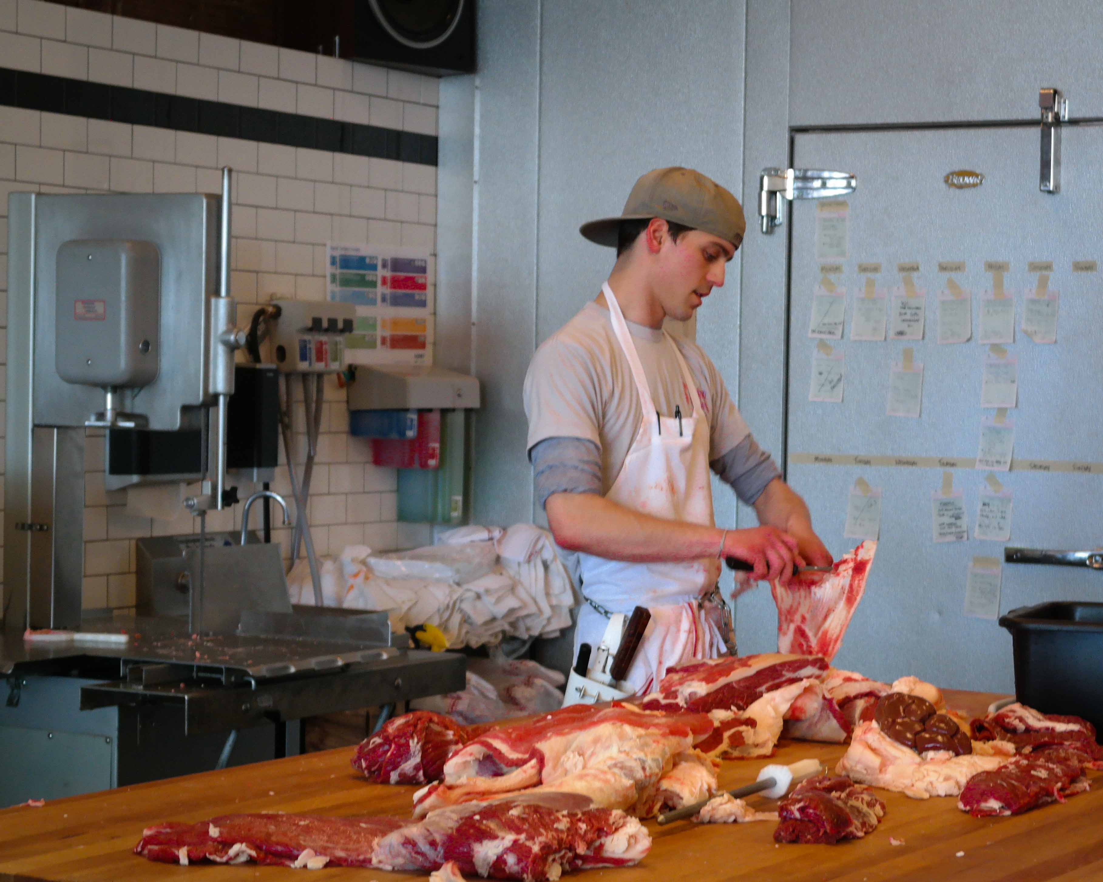 A butcher in Charlottesville, Virginia